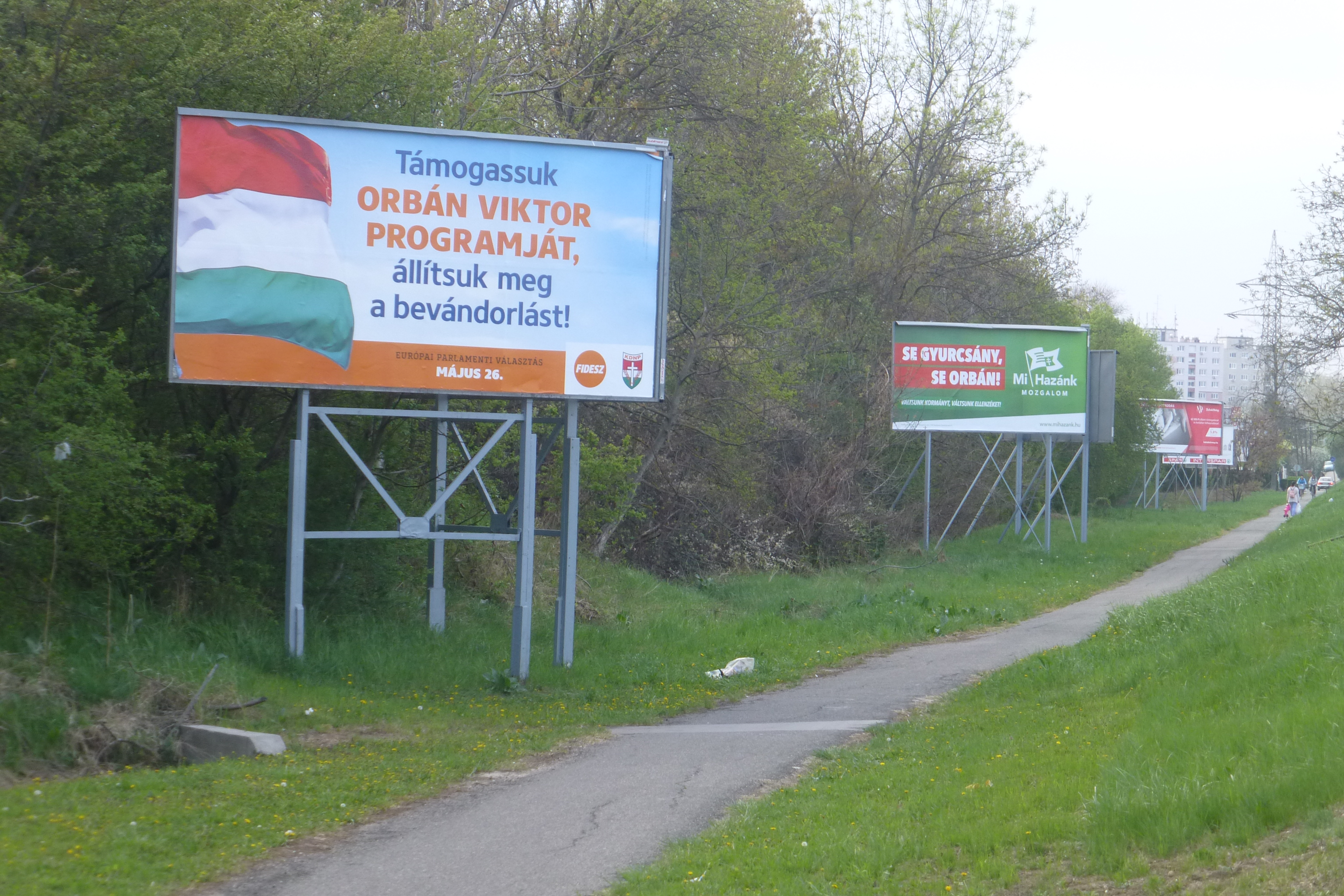 Lot of political posters along the Szeged-Szőreg bicycle path on the first day of the 2019 European Parliament election's campaign. During the campaign the governing parties focused on international migration, the opposition parties criticized the government's activity (and each other).